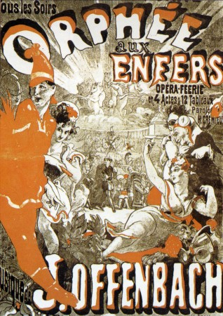 1874 playbill from a French production of Orpheus in the Underworld